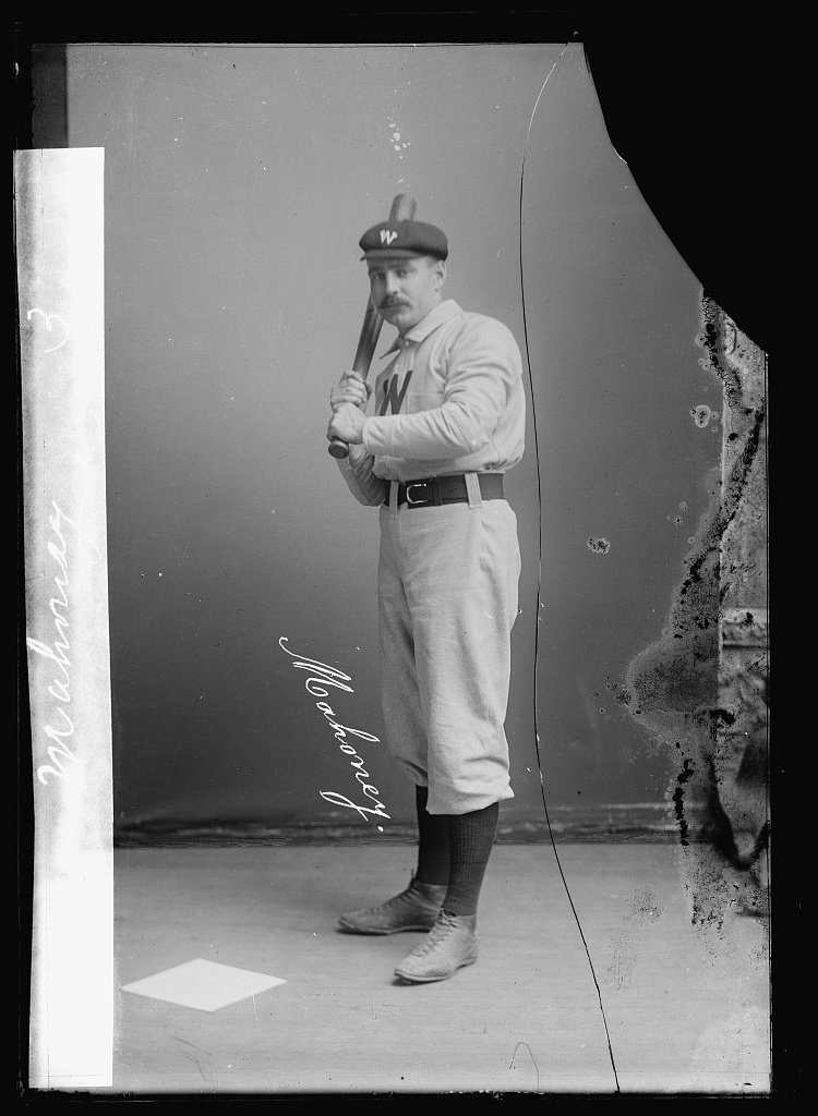 Dan Mahoney - Washington Senator portrait by C. M. Bell Studio, posng with bat